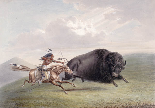 Hunting Bison in USA by George Catlin